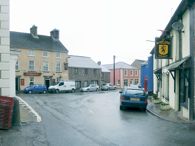 Centre of Llangadog A relatively vast expanse of tarmac occurs in the middle of Llangadog - the result of three very narrow roads joining in one place.